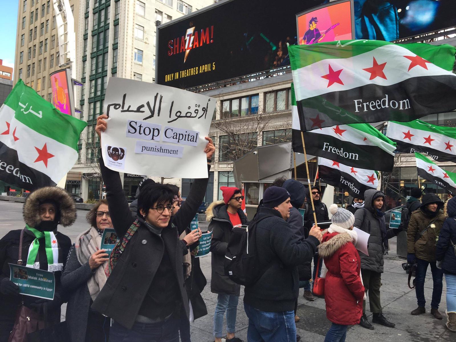 Sara Hegazy, Human rights activist from Egypt